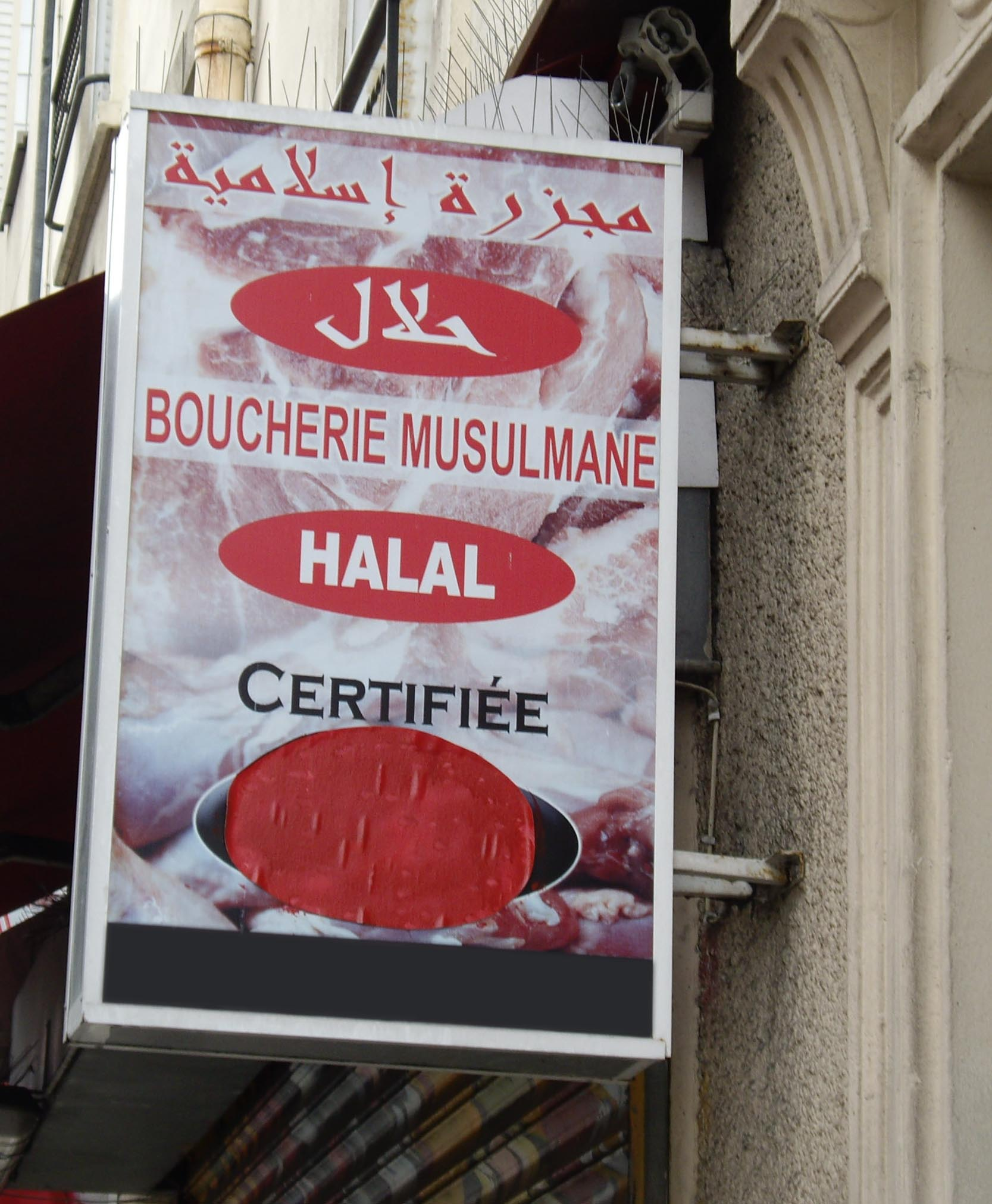 Shop sign in French and Arabic for a halal butcher's shop in Rue de Patay, Paris 13e.